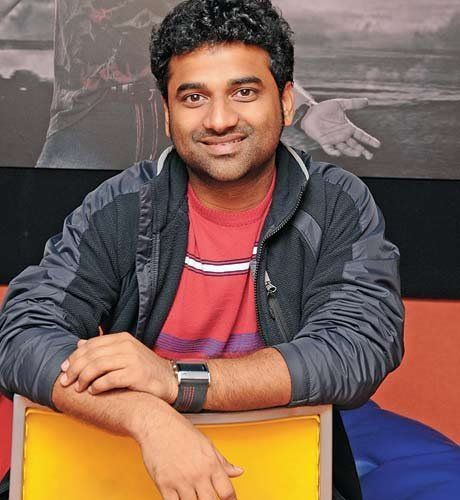 Devi Sri Prasad, South Indian music composer